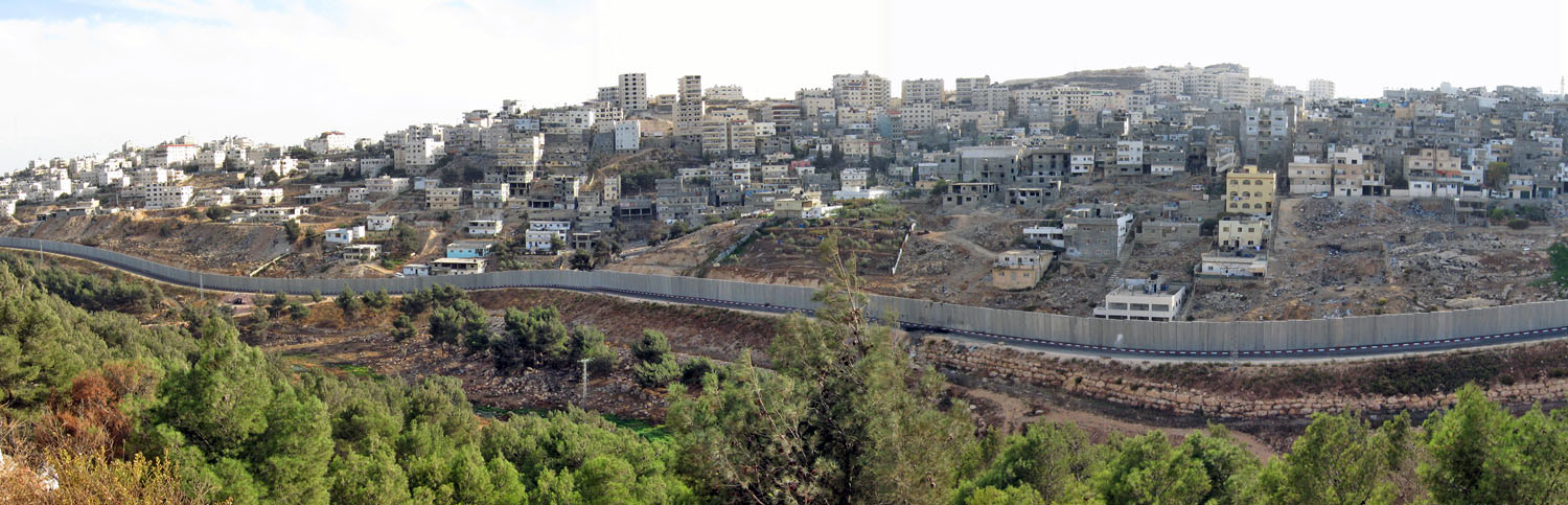 Shoaffat refugee camp near Jerusalem